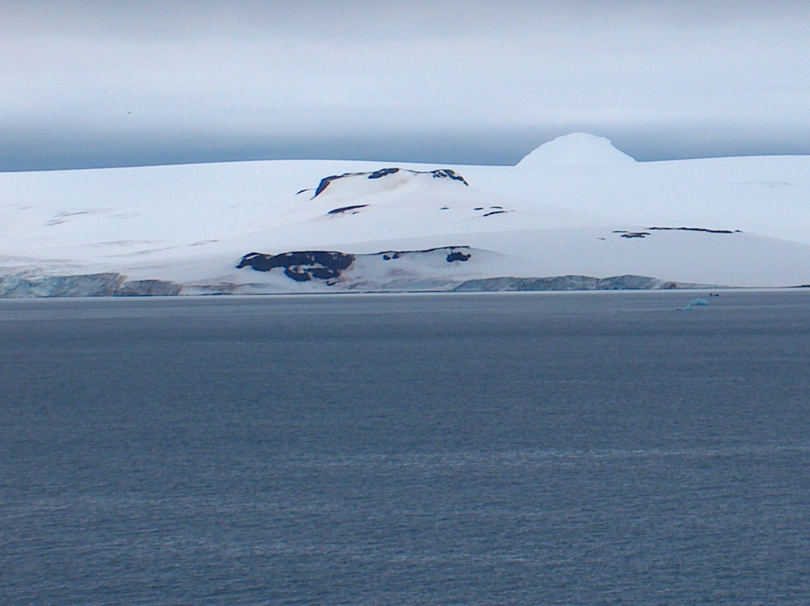 A view of Hebrizelm Hill in Antarctica. source: Lyubomir Ivanov